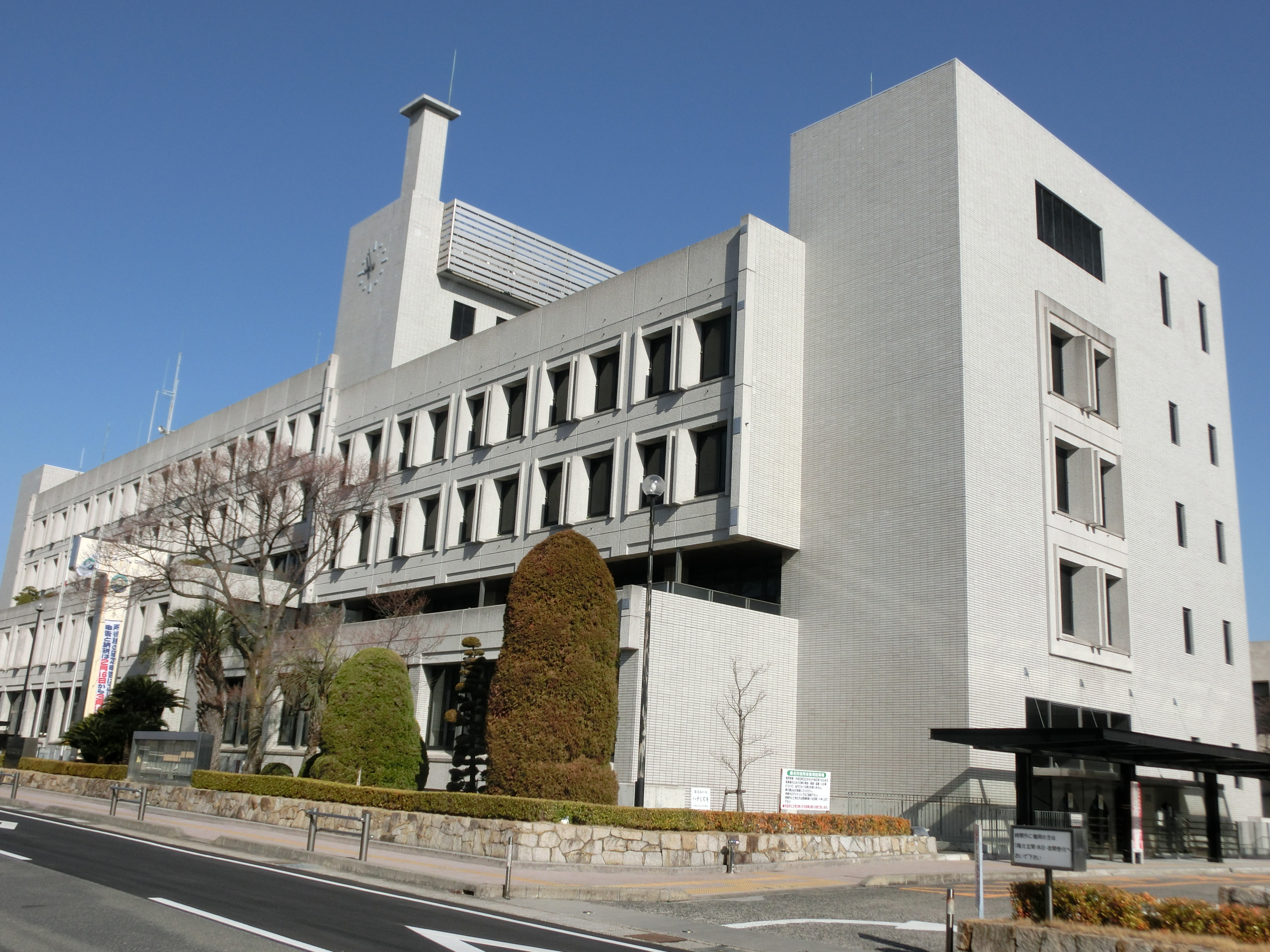 Kuwana City Hall